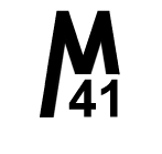 The Morgan Out Island 41 sailboat class badge.